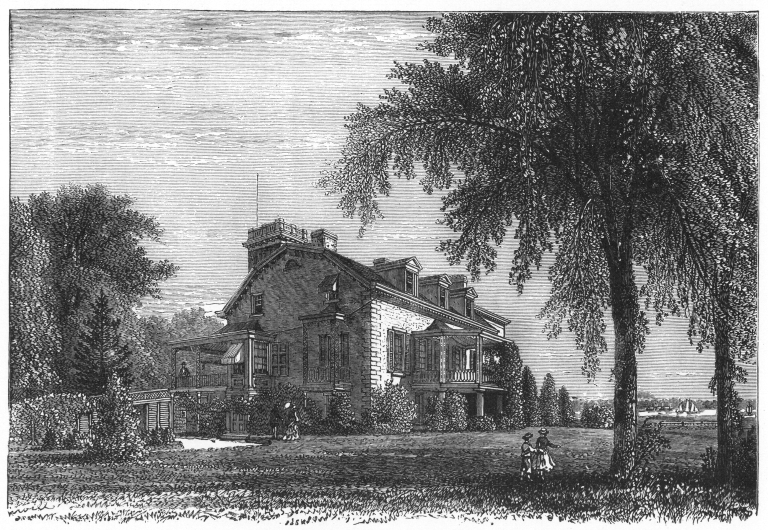 See the "List of illustrations" images (4 pages) in this book's category. Images are numbered in the order they appear in the book.